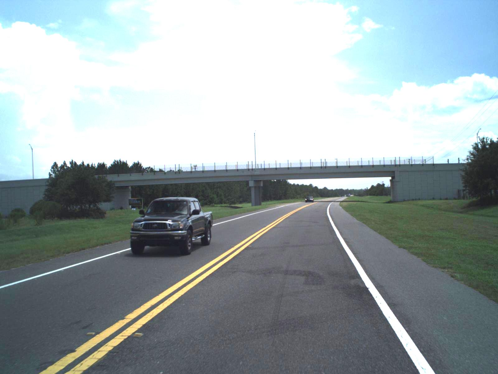 southbound on SR 23 at the Plantation Oaks Boulevard bridge, 71393000 mile 1.140 (frame 253)